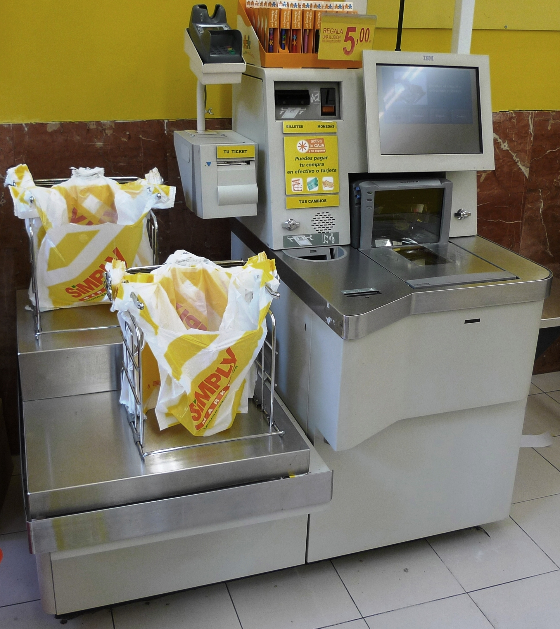 Self service box or automatic box in Simply, a supermarket in Madrid